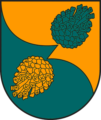 Coat of arms of Inčukalns municipalityLatviešu: Inčukalna novada ģerbonis